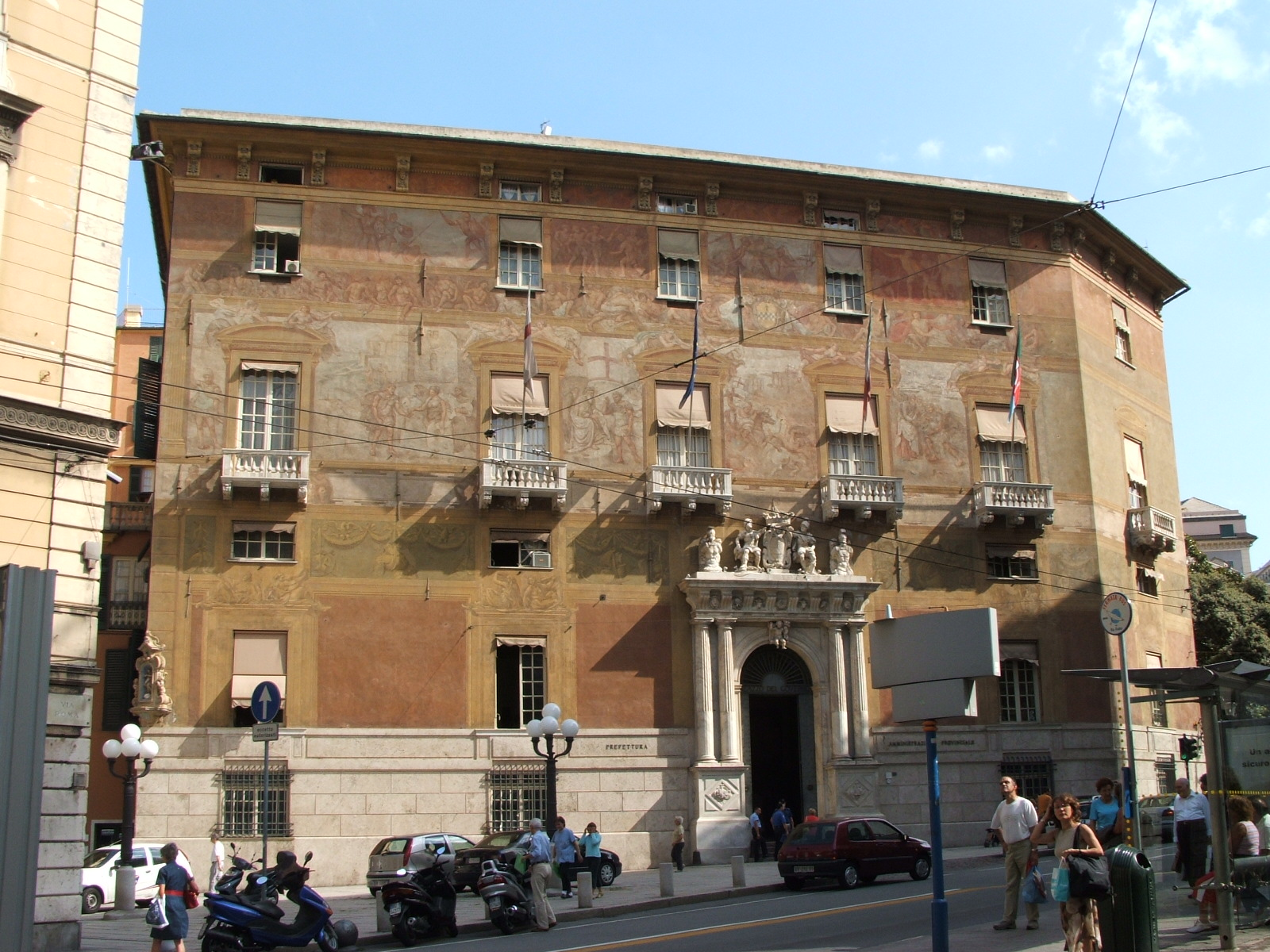 Doria Spinola Palace — in Genoa, Liguria, northern Italy. With a Mannerist facade with wall paintings, and a Renaissance portal.